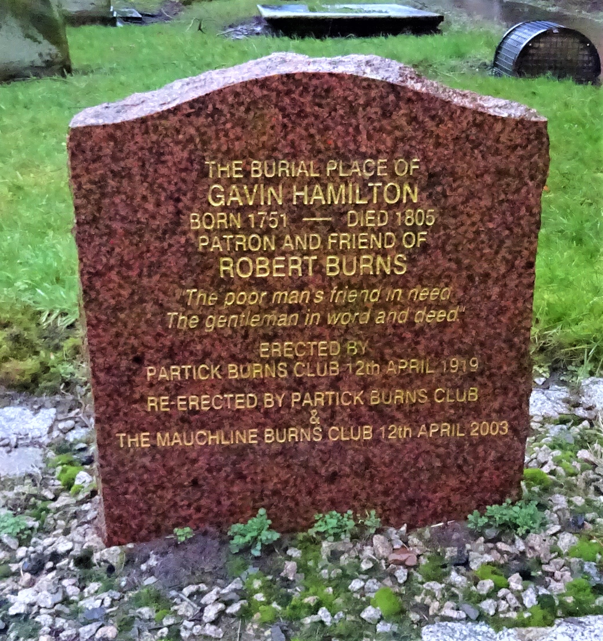 Gavin Hamilton's Gravestone, Mauchline, East Ayrshire, Scotland. Friend and mentor of Robert Burns.